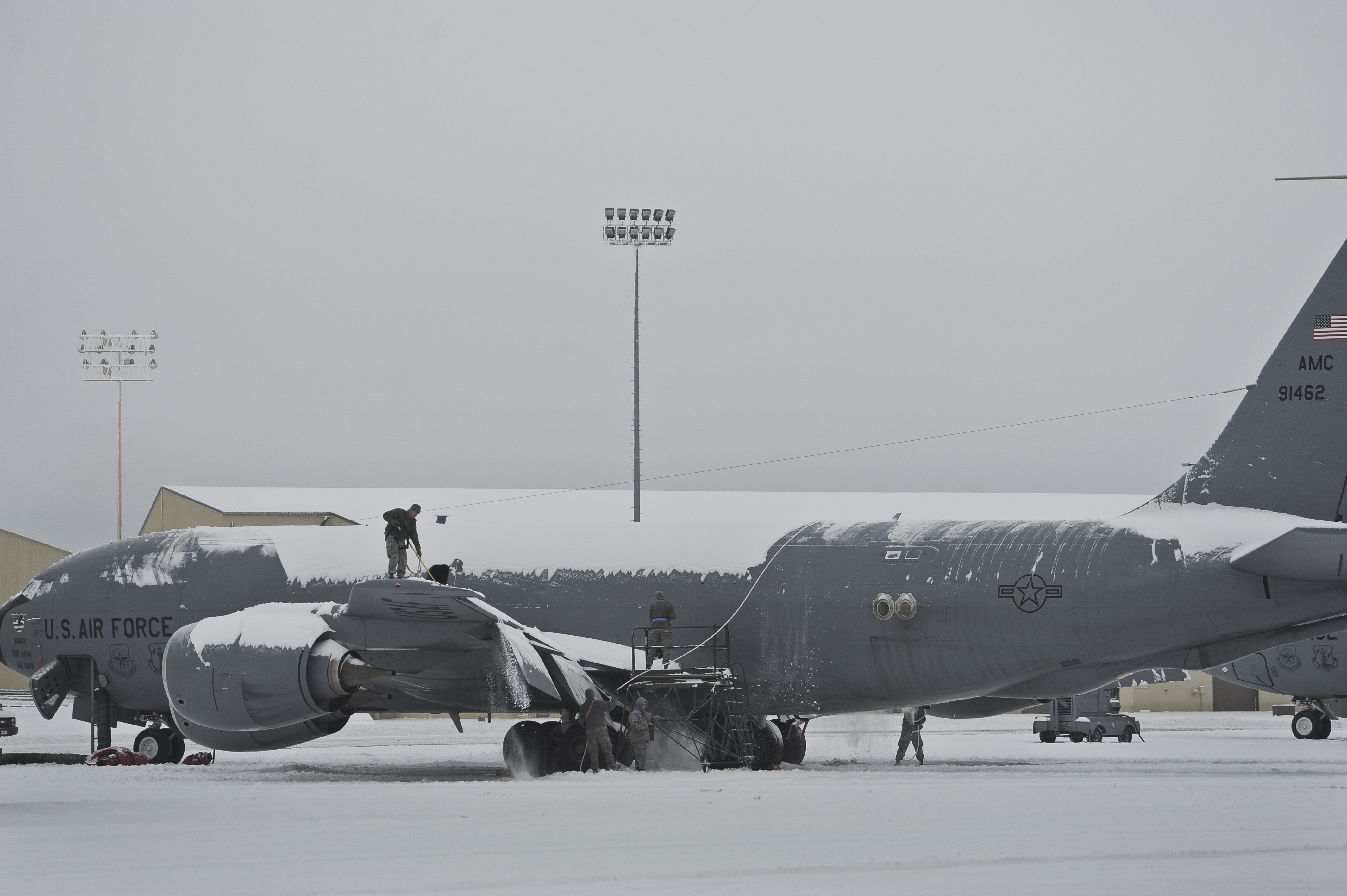 Airmen of the 92nd Aircraft Maintenance Squadron work together to de-ice a KC-135 Stratotanker on the flight line for flight preparation at Fairchild Air Force Base, Wash., Jan. 29, 2014. Aircraft de-icing is a process in which liquid solutions are sprayed onto an aircraft during the winter to both defrost and prevent future precipitation from freezing. Snow and ice on the wings and rear tail component change their shape and disrupt the airflow making it difficult to fly and diminishes fuel economy. (U.S. Air Force photo by Staff Sgt. Alexandre Montes/RELEASED) Unit: 92d Air Refueling Wing